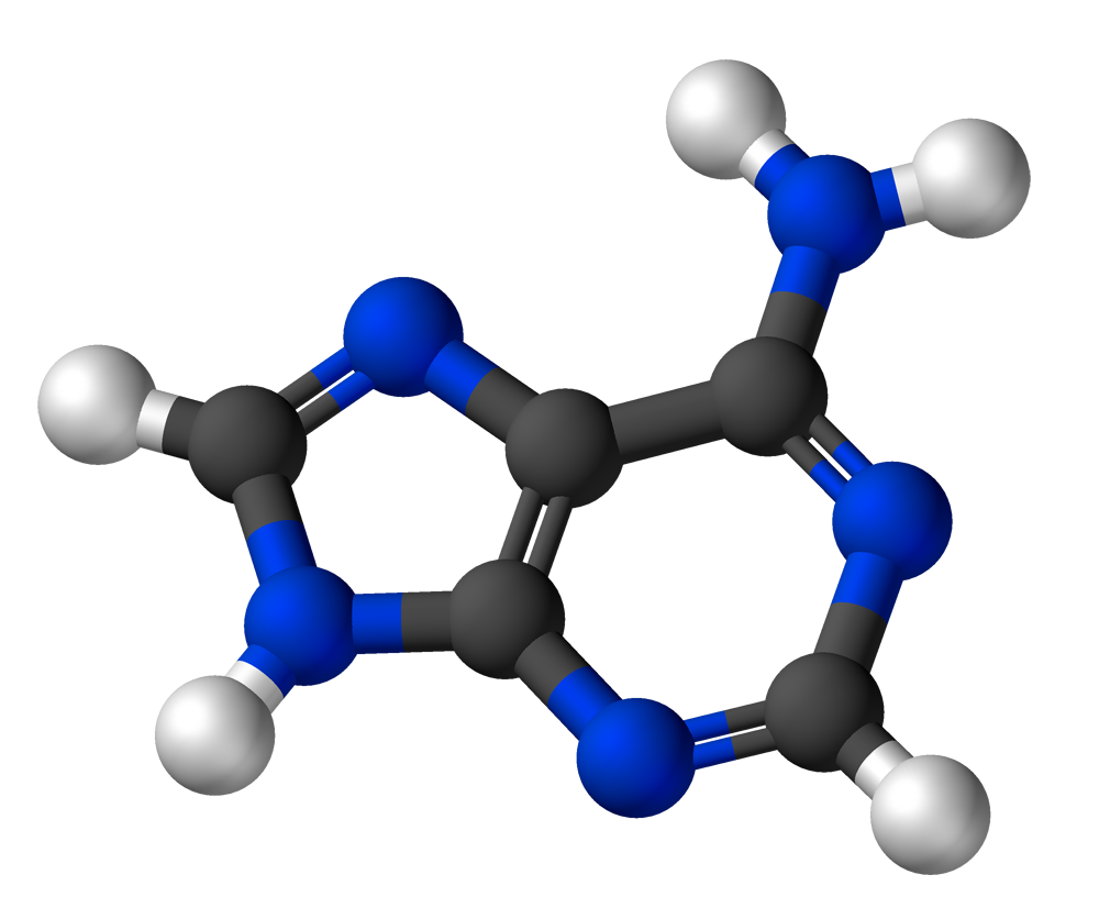 3D balls - Adenine Color code: Carbon, C: black Hydrogen, H: white Nitrogen, N: blue